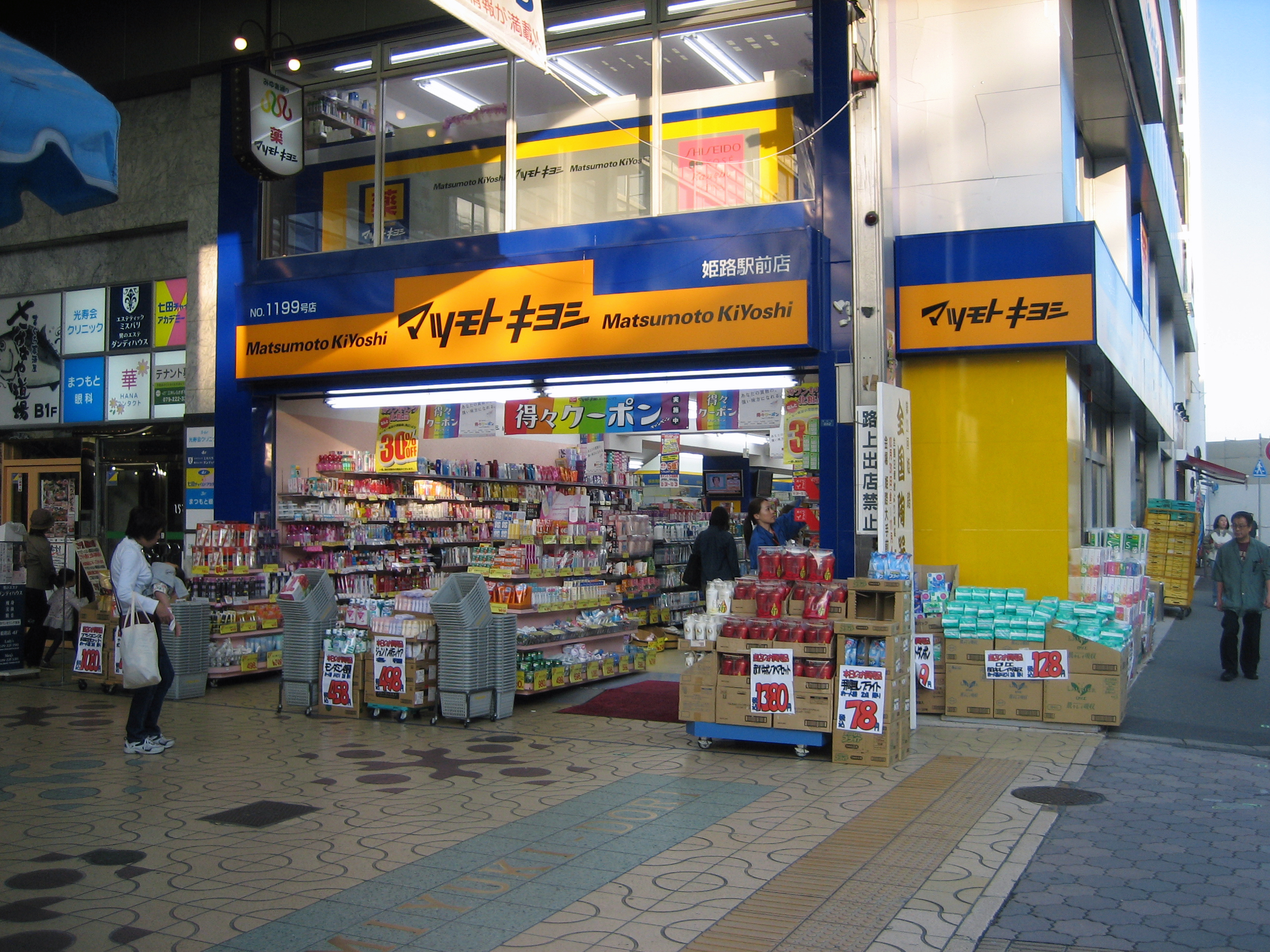 Drugstore in Himeji. One of branches in major drugstore in Japan.